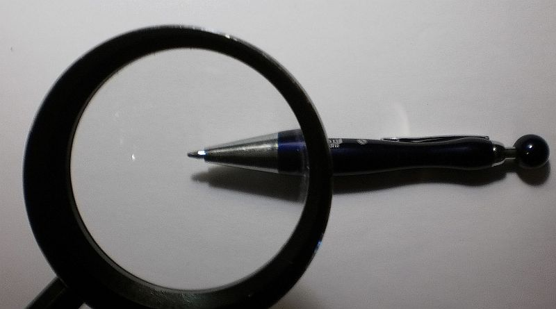 Magnifying glass.